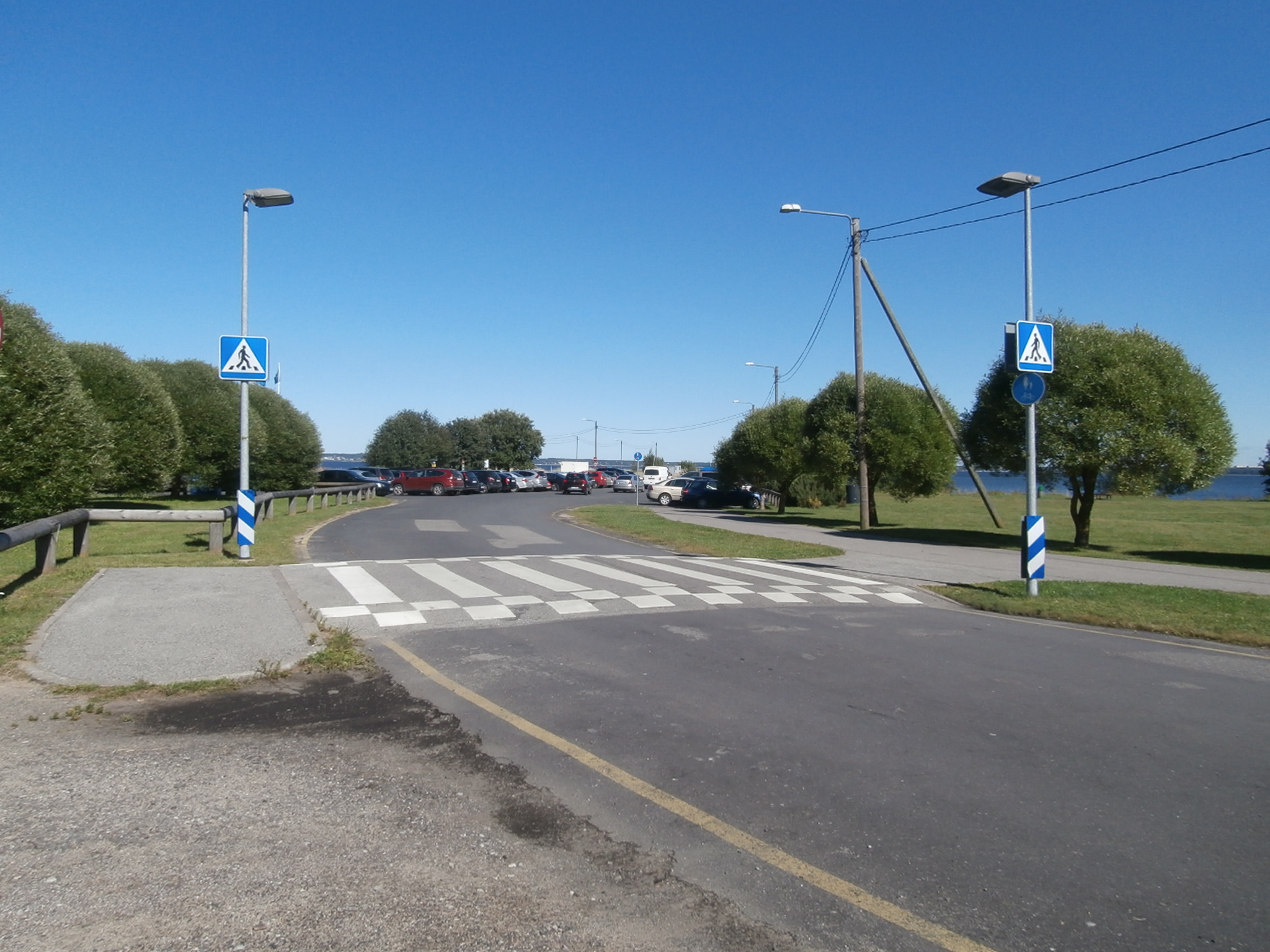 Pedestrian crossing across Paljassaare tee Tallinn 14 August 2017